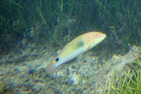 threespot wrasse Halichoeres trimaculatus